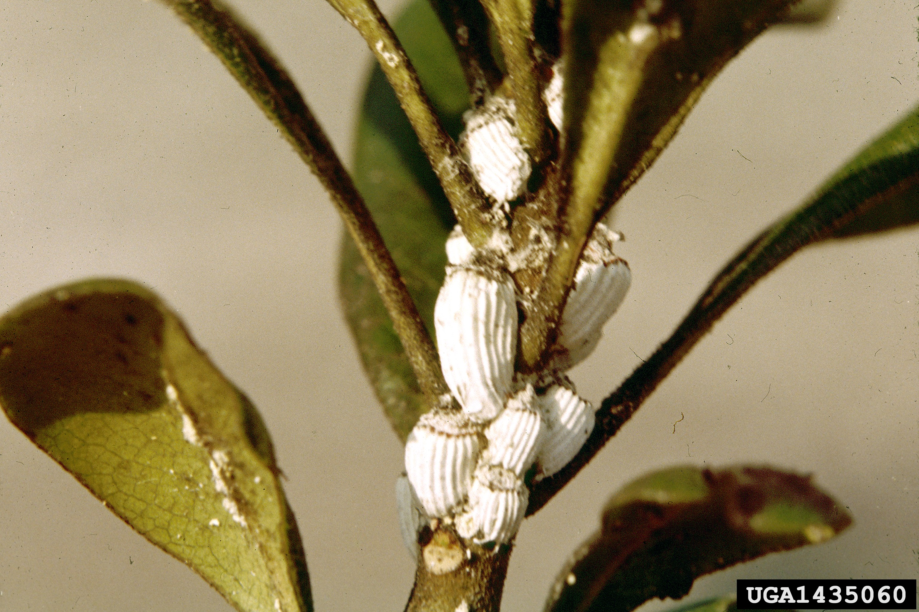 Icerya purchasi - Infests many plants including pittosporum and many others.